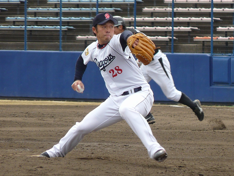 CD-Shinji-Iwata20120322